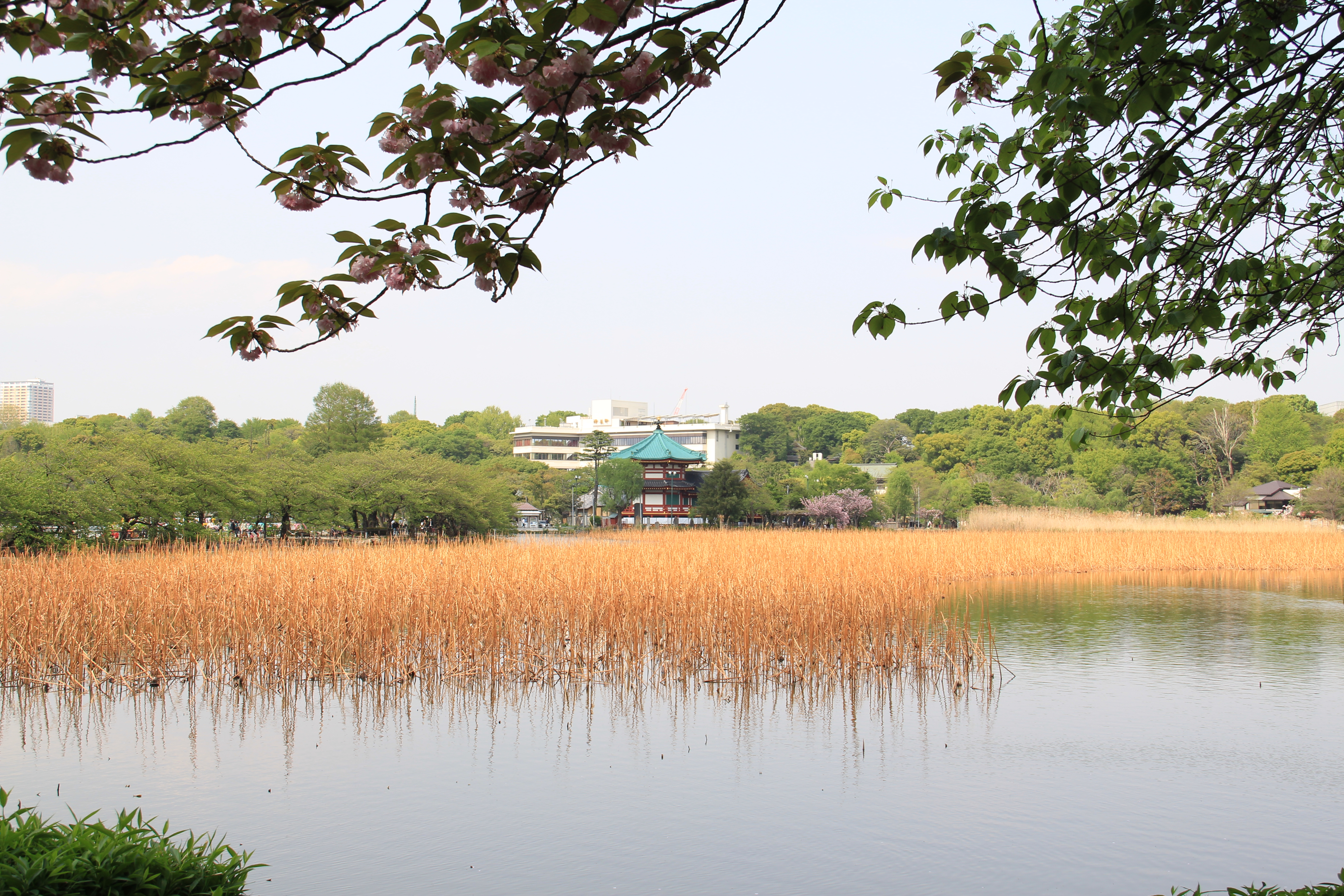 Ueno_park in Tokyo